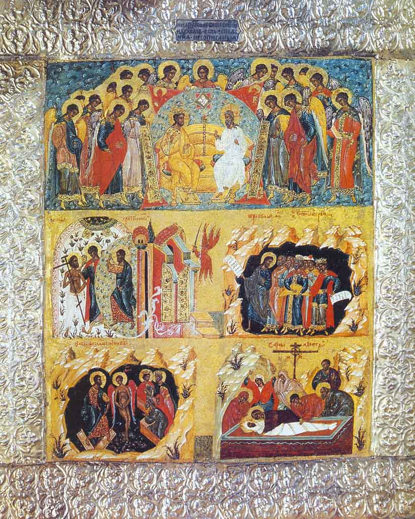 Russian icon with 5 themes: The Holy Trinity of New Testament; Good Felon enters in Heaven; Adam, Eva and others follows Jesus from Hell to Heaven; Harrowing of Hell; Entombment of Christ Пятичастная икона: Новозаветная Троица, Шествие праведников в Рай, Благоразумный разбойник в Раю, Положение во гроб, Сошествие во ад.